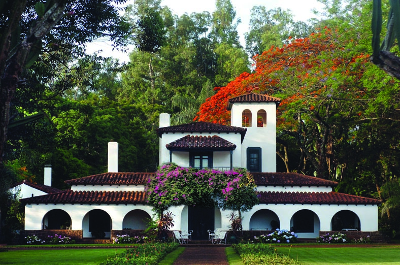 Taragüí, the Guaraní word for “Corrientes”—the name of the province in which Establecimiento Las Marías is located—is the flagship brand of the company. Leader in the Argentine as well as global markets, Taragüí offers a quality and personality that have remained unaltered through the years.